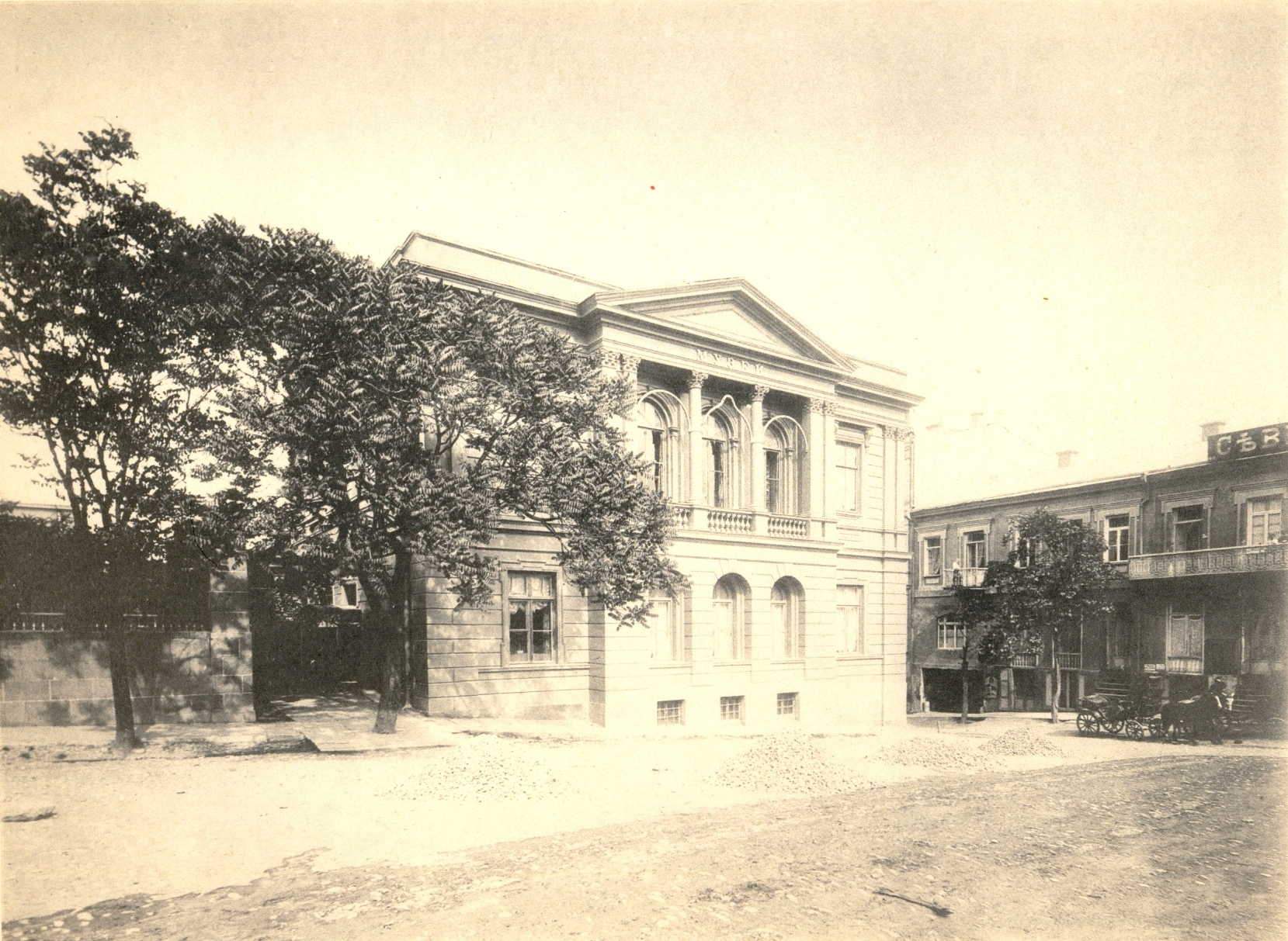 Museum of Caucasian Department. Tbilisi 1862